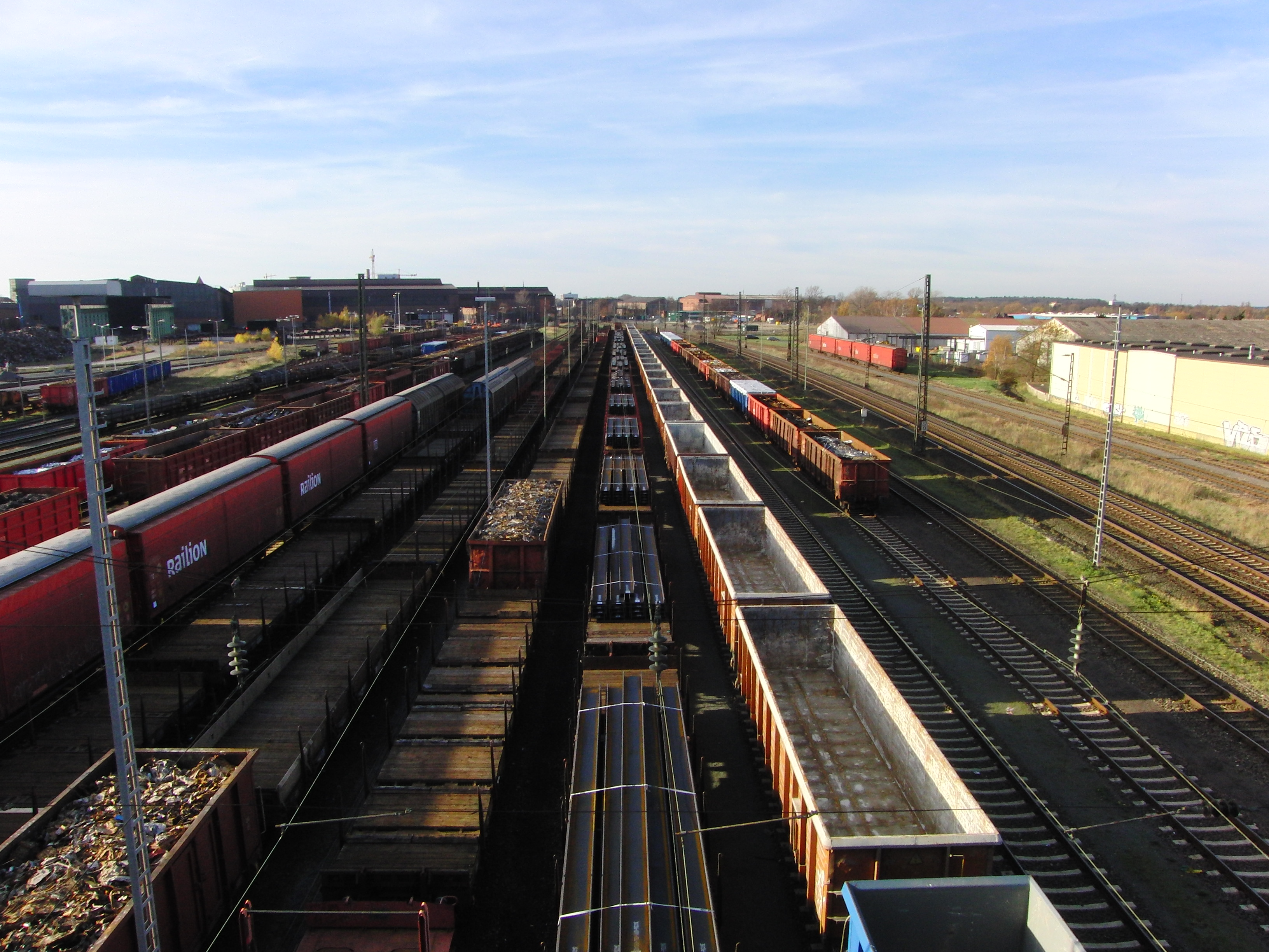 Rail yard of the Verkehrsbetriebe Peine Salzgitter as seen from the Stahlwerkbrücke, view to NW